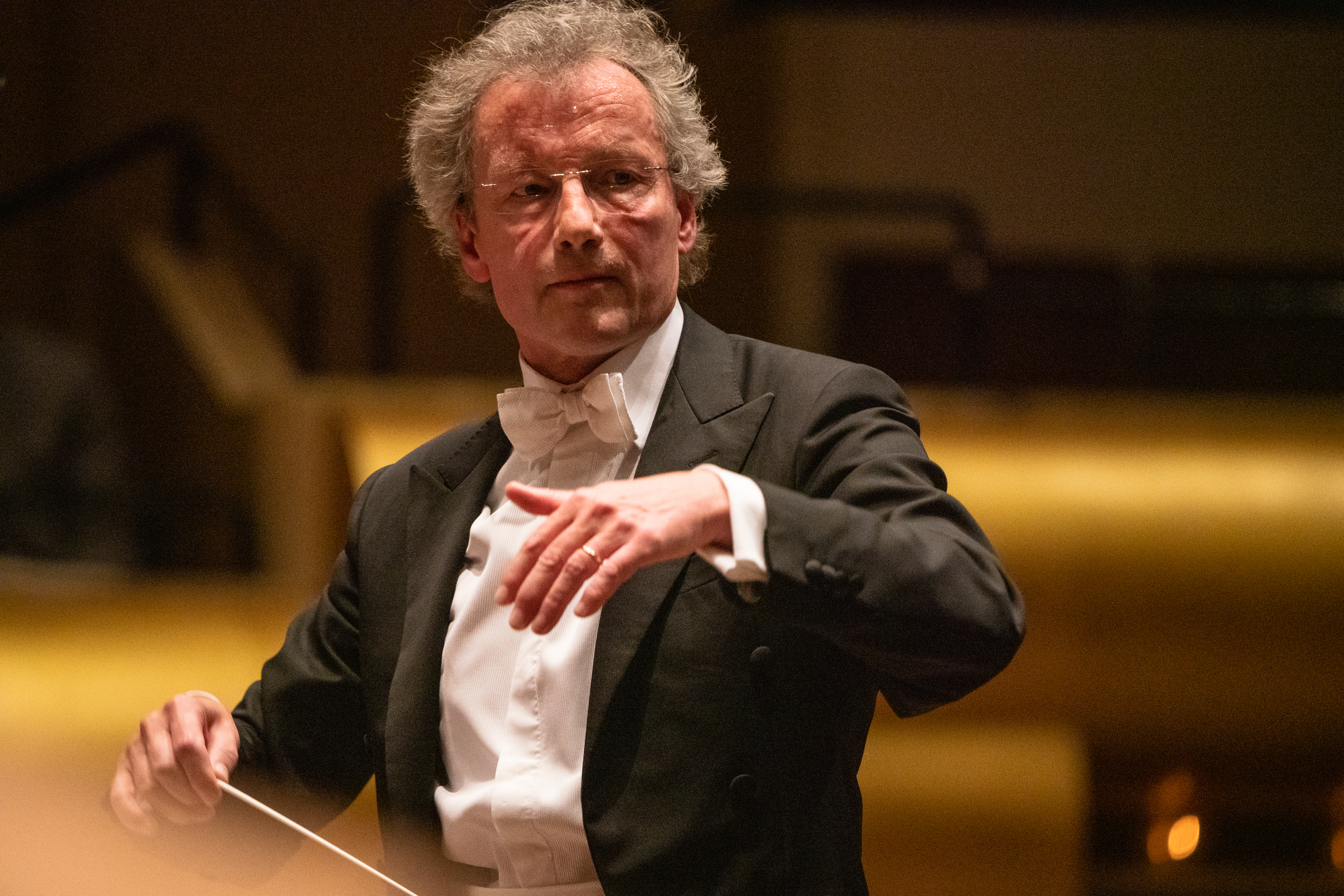 David Geffen Hall Lincoln Center New York, NY Photo by Steven Pisano